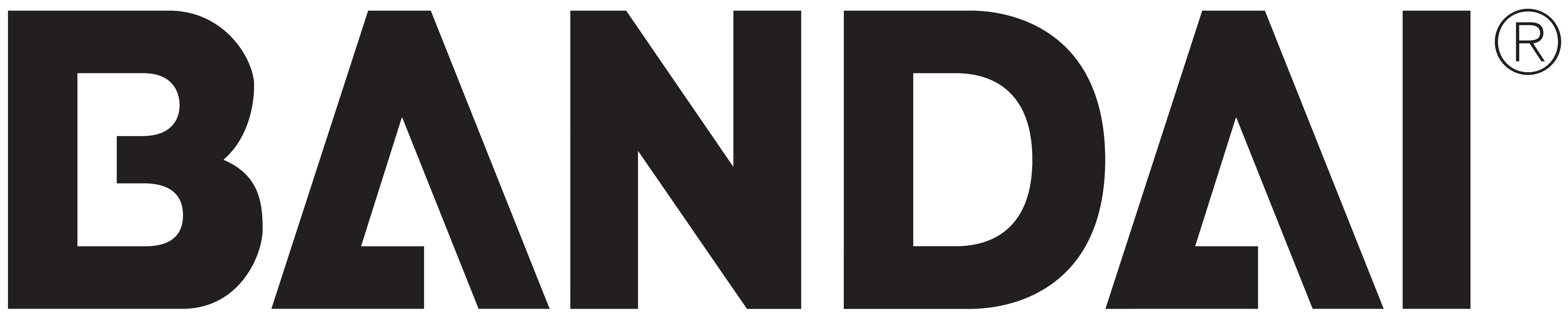 Bandai's logo